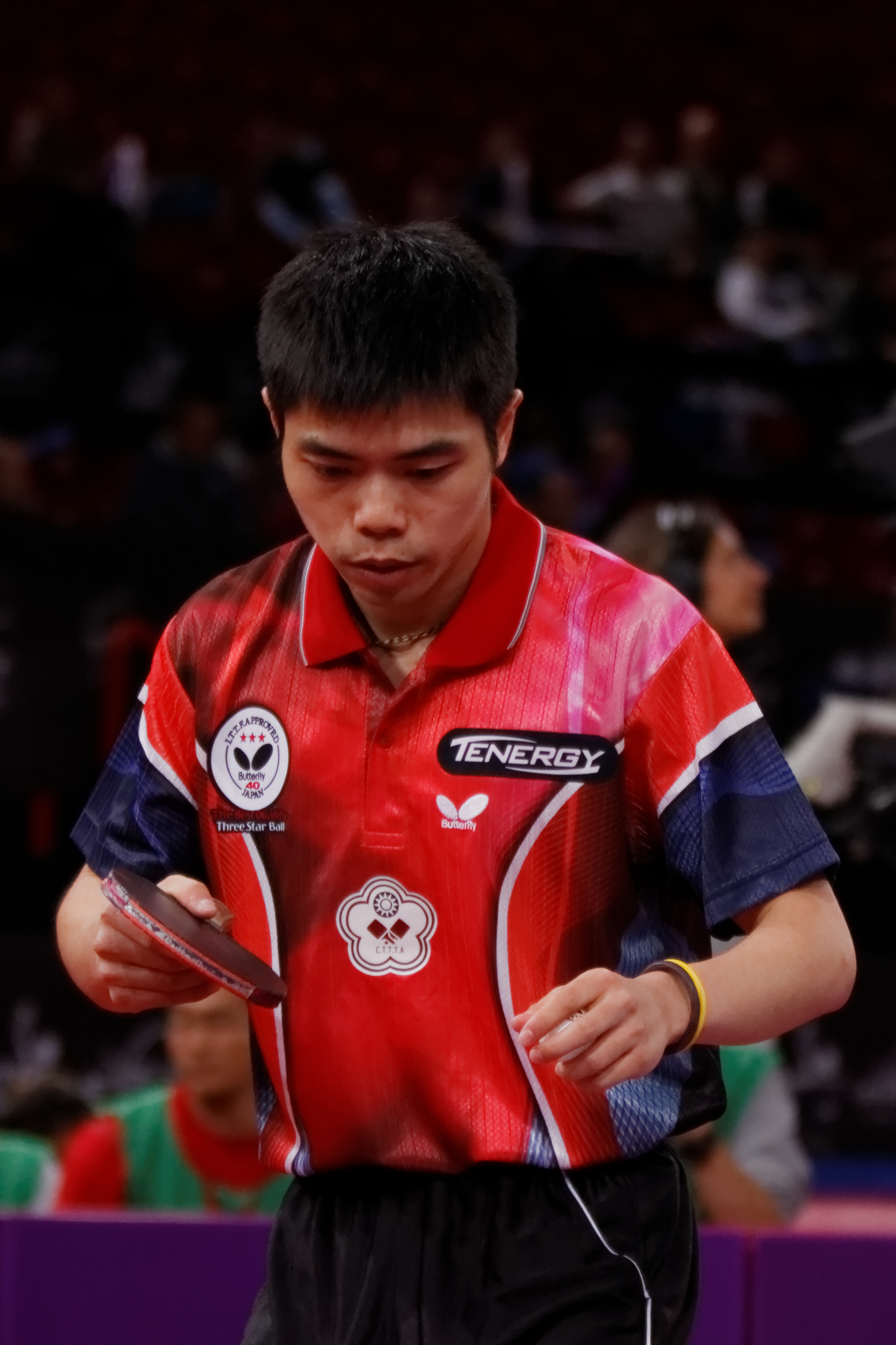 2013 World Table Tennis Championships, Paris. Men's Doubles Semifinals. Wang Liqin - Zhou Yu vs Chen Chien-an - Chuan Chih-yuan.